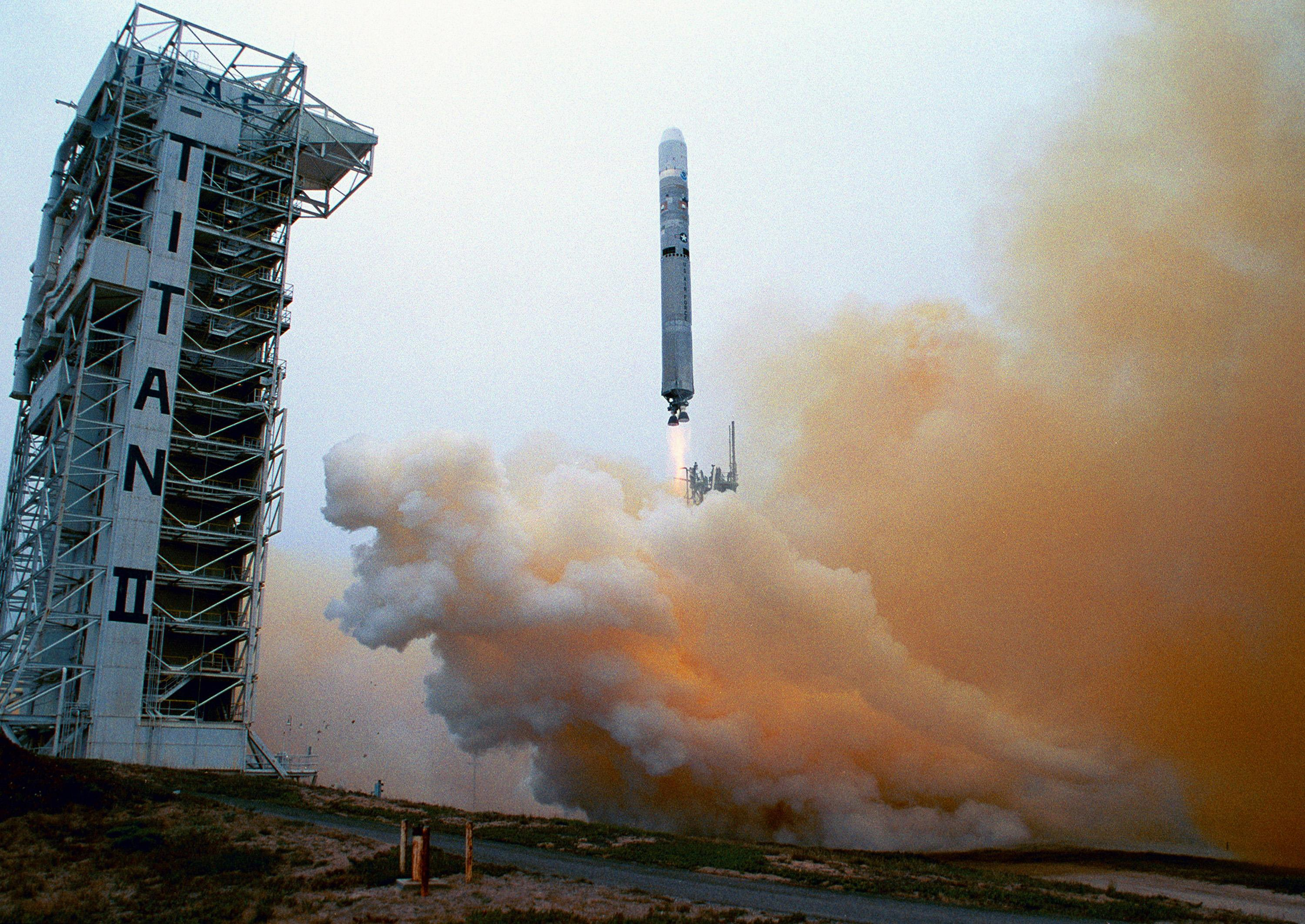 A Titan II rocket hurtles above the launch tower at Vandenberg Air Force Base, Calif., with the National Oceanic and Atmospheric Administration (NOAA) spacecraft (NOAA-M) aboard. The rocket lifted off at 2:23 p.m. EDT. NOAA-M is another in a series of polar-orbiting Earth environmental observation satellites that provide global data to NOAA's short- and long-range weather forecasting systems.